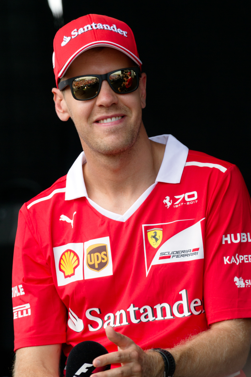 Formula One 2017 Rd.15 Malaysian GP: Sebastian Vettel (Ferrari) at the fan meeting